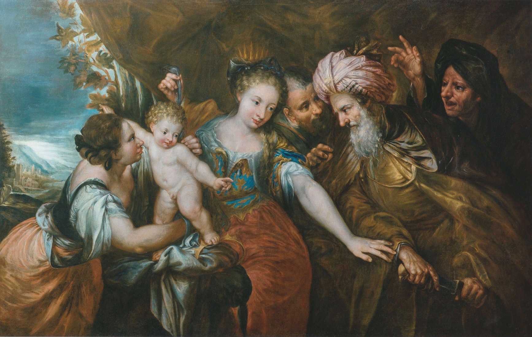 Oil on canvas, 50-1/2 x 66-1/2 in.